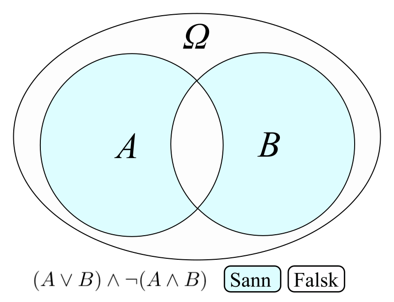 logical XOR